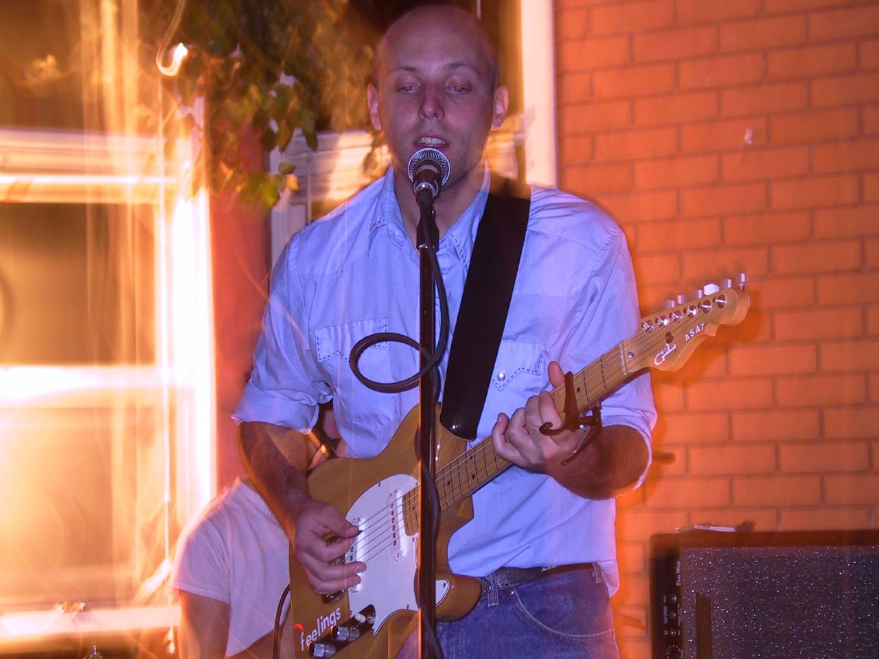 Snailhouse